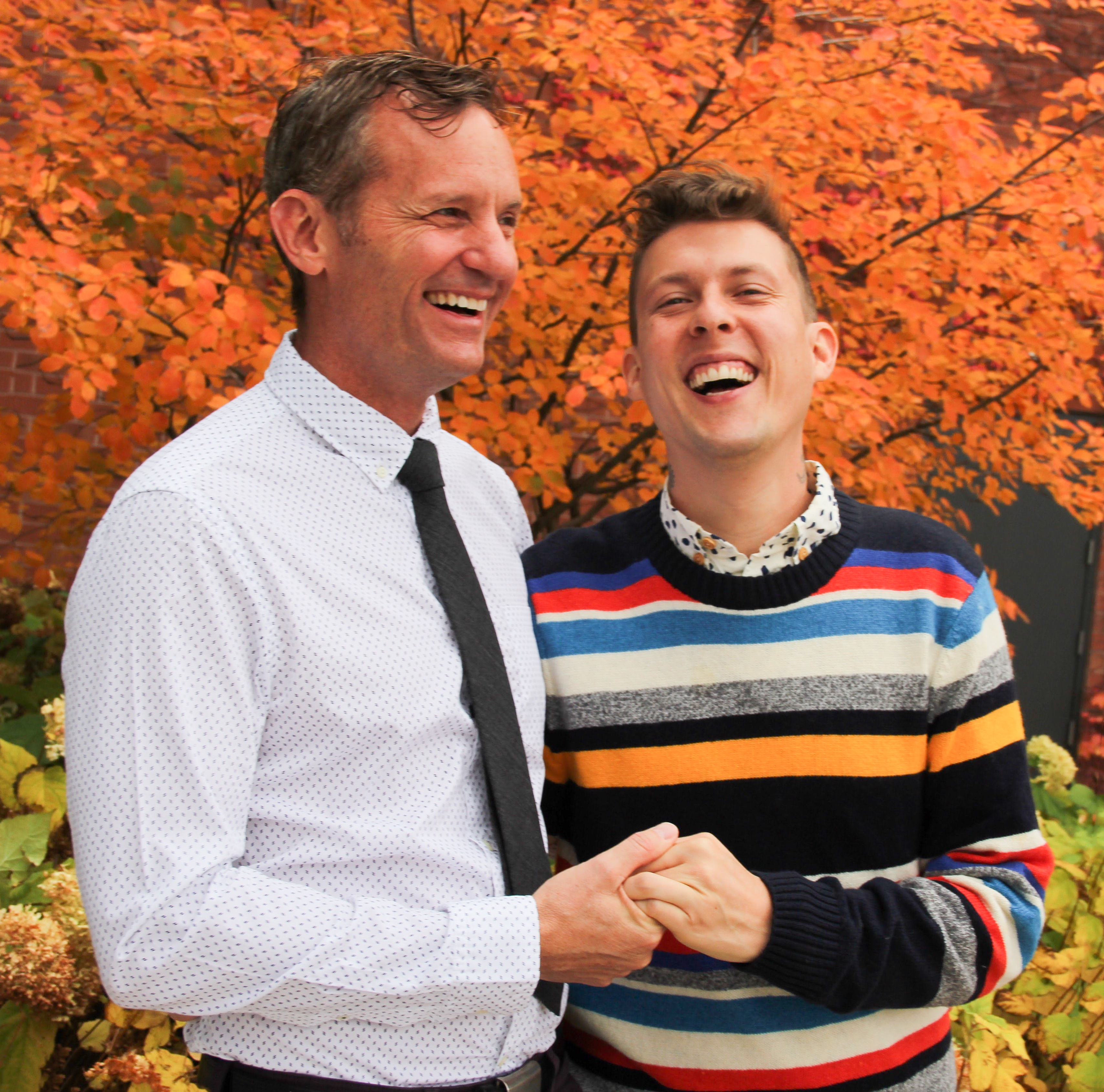 Newly married couple at courthouse in Hennepin county, Minnesota, shortly after same sex marriage was legalized.